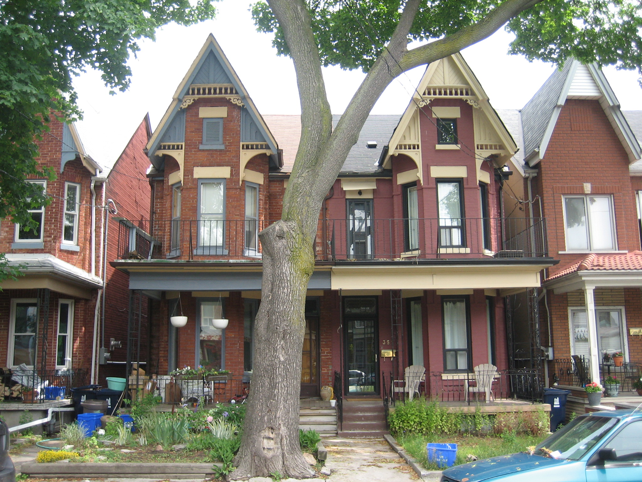 Example of a Bay-and-gable house in Little Italy